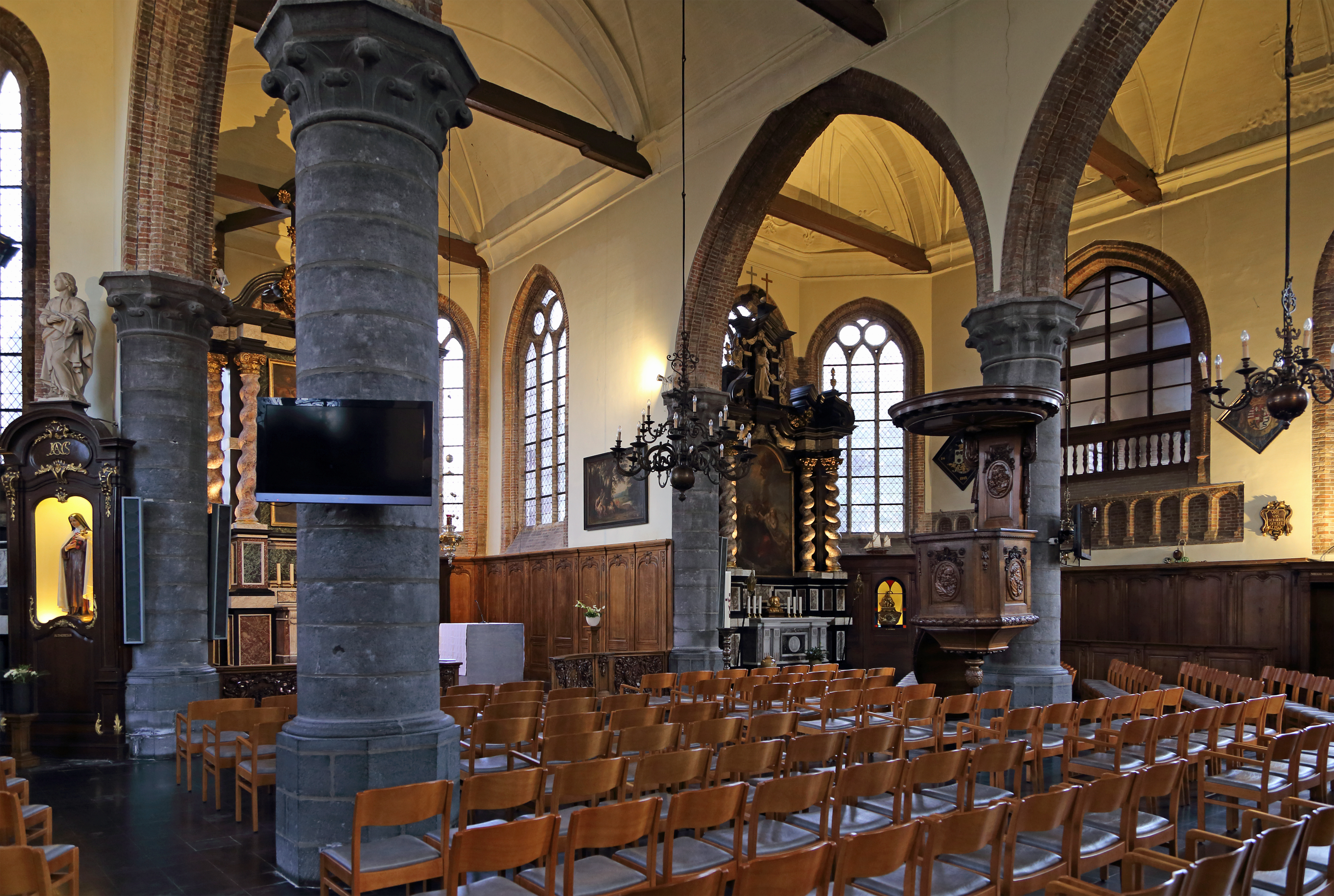 Blankenberge (Belgium): interior of St Antonius church